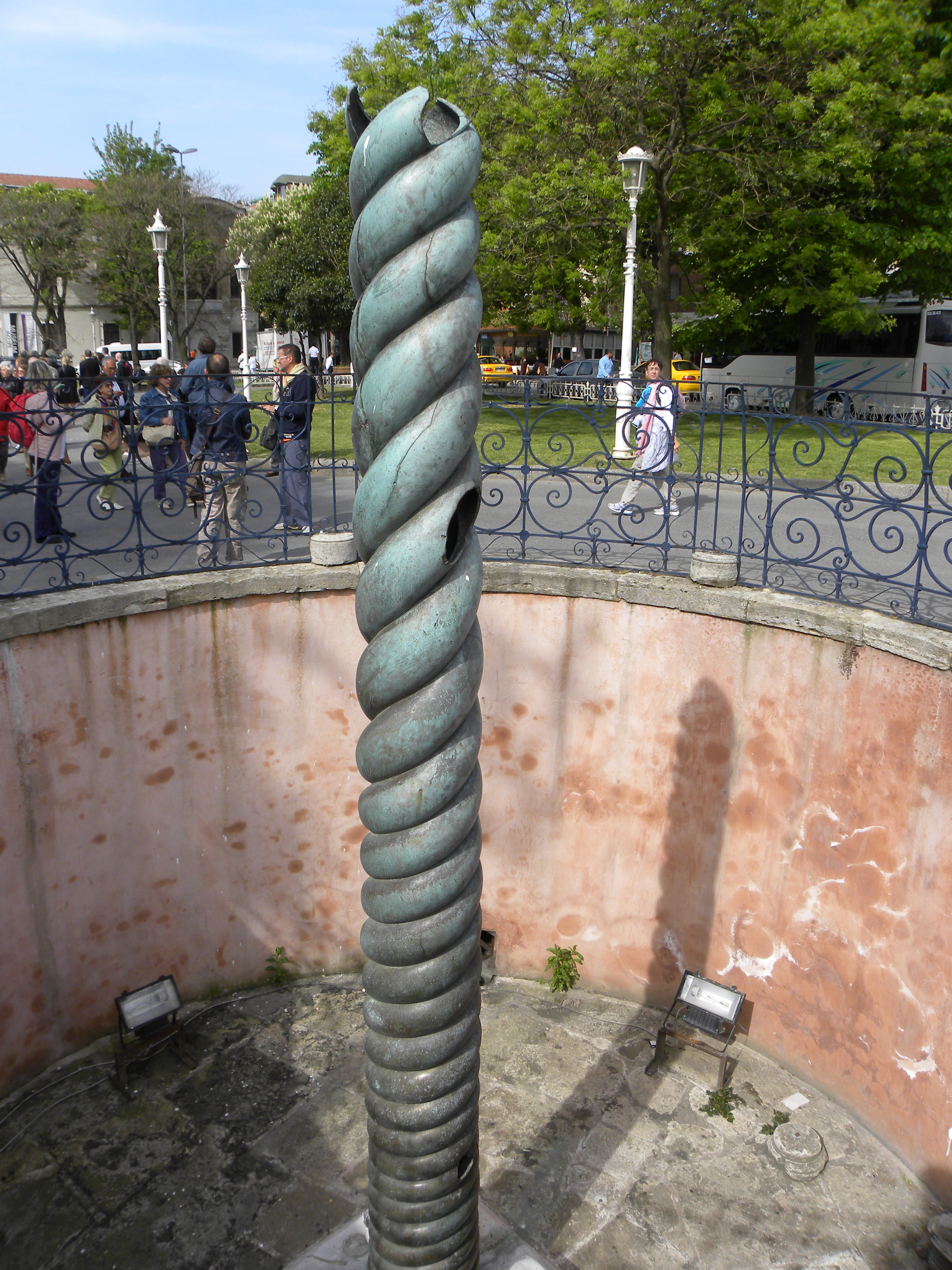 The So-called "Snake column" or "Serpents column" that used to be in the centre of the Hippodrome in Constantinople. Originally it had three heads and came from Delphi, one of the heads is in the Istanbul museum today.